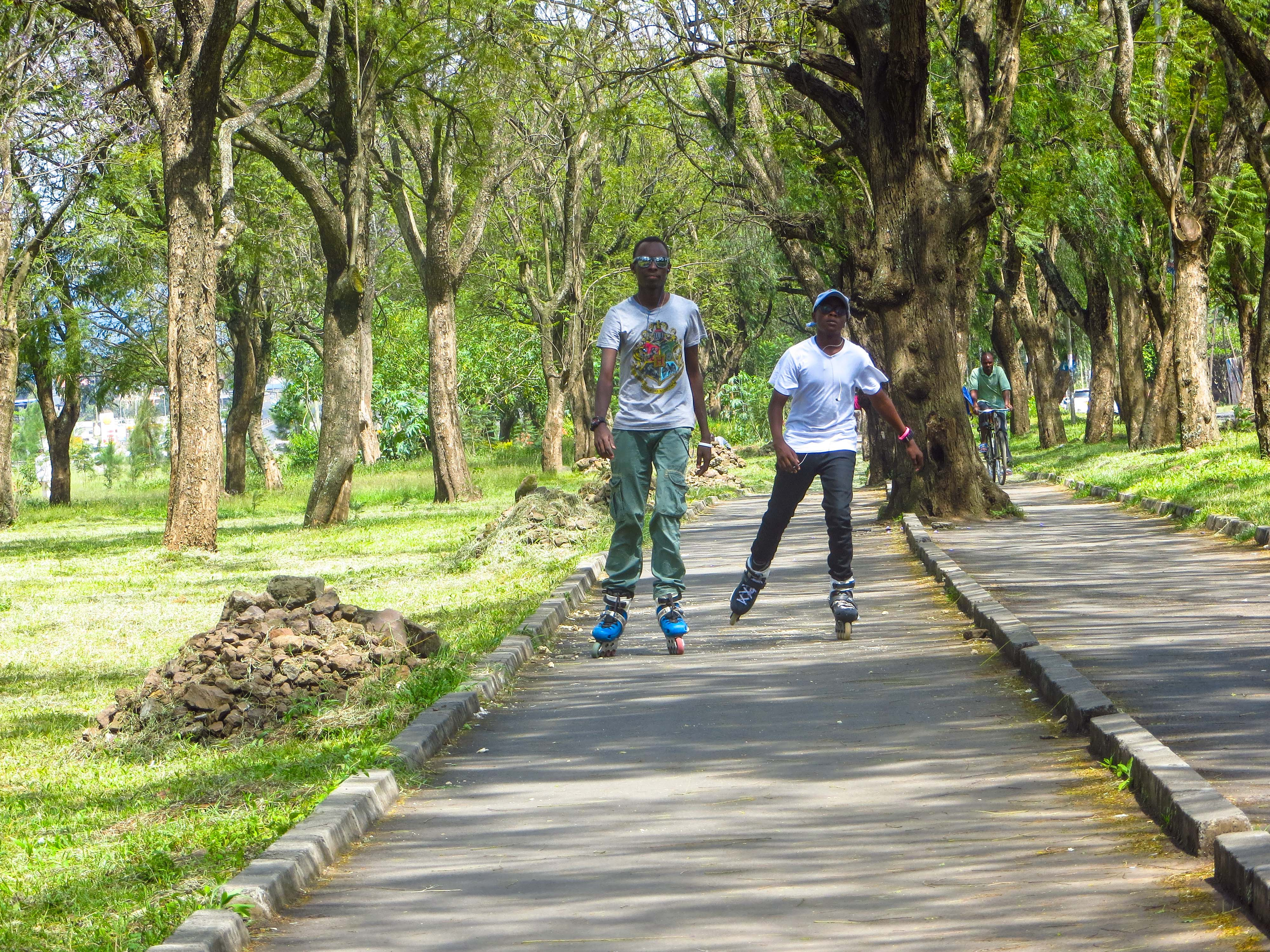 two rollerskaters on the sidewalks in Nakuru town This is an image with the theme "Africa on the Move or Transport" from: Kenya